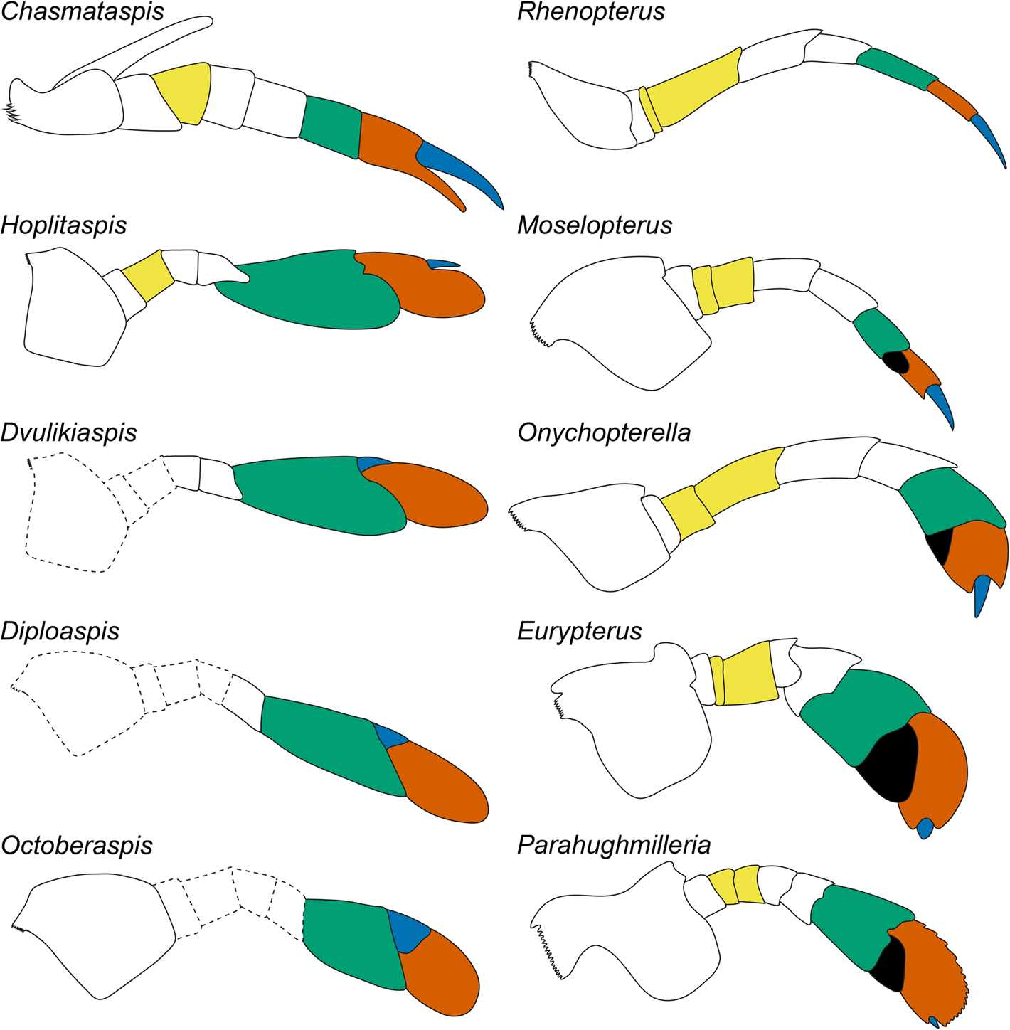 Chasmataspidid appendage VI podomere homology. Comparison of the morphology of appendage VI of the chasmataspidids Chasmataspis, Hoplitaspis, Dvulikiaspis, Diploaspis, and Octoberaspis and the eurypterids Rhenopterus, Moselopterus, Onychopterella, Eurypterus and Parahughmilleria. Proposed homology of the femur and distal podomeres are shown through color coding: yellow = femur (divided into the basifemur and telofemur in eurypterids), green = basitarsus, red = telotarsus, blue = apotele, black = ‘podomere’ 7a. Where the podomere morphology is unknown the reconstruction is shown by a dashed outline. The change in endopod insertion on the coxa in Diploaspis and Octoberaspis is inferred through the angle at which the paddle projects from underneath the prosomal shield and the in situ preservation of the coxa of Octoberaspis.